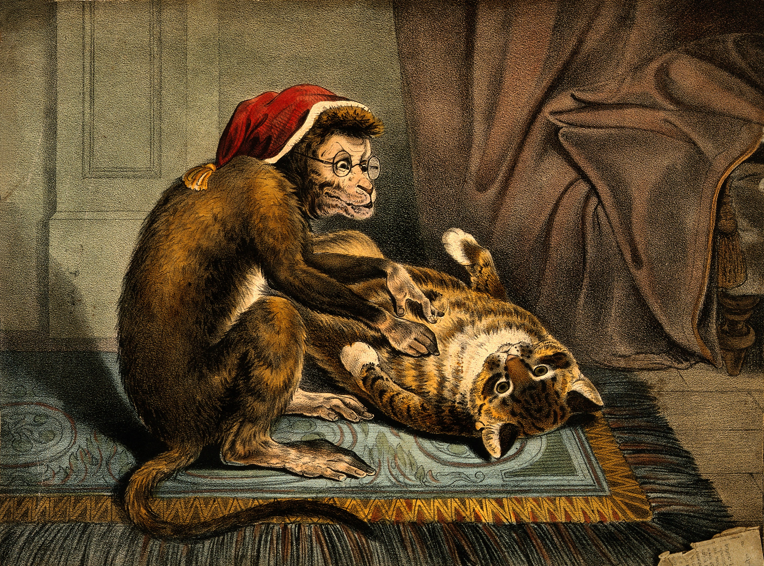 A monkey physician examining a cat patient for fleas. Coloured lithograph. Iconographic Collections